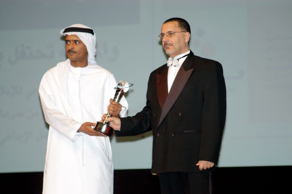 جائزة الصحافة العربية 2005